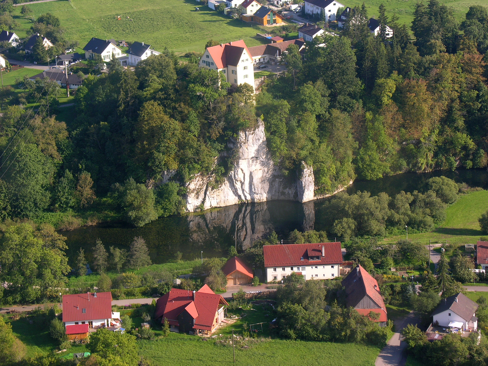 Germany, Baden-Württemberg, Aerial view of Gutenstein on the Danube